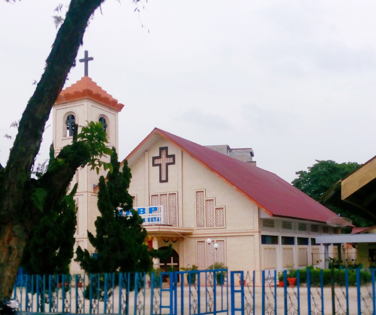 HKBP Perdagangan Kota, Church in Perdagangan, Bandar, Simalungun